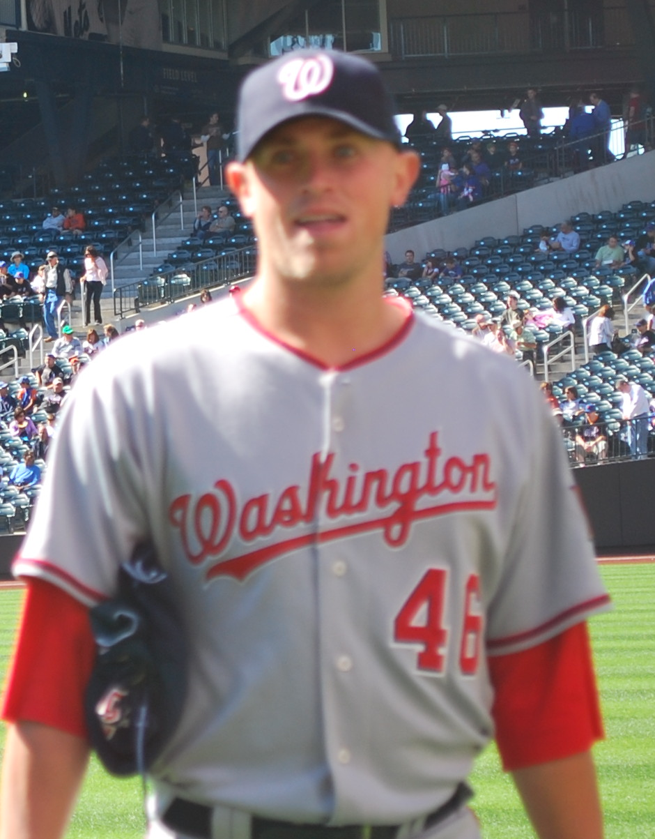 Collin Balester and Joe Bisenius of the Washington Nationals, October 2, 2010.